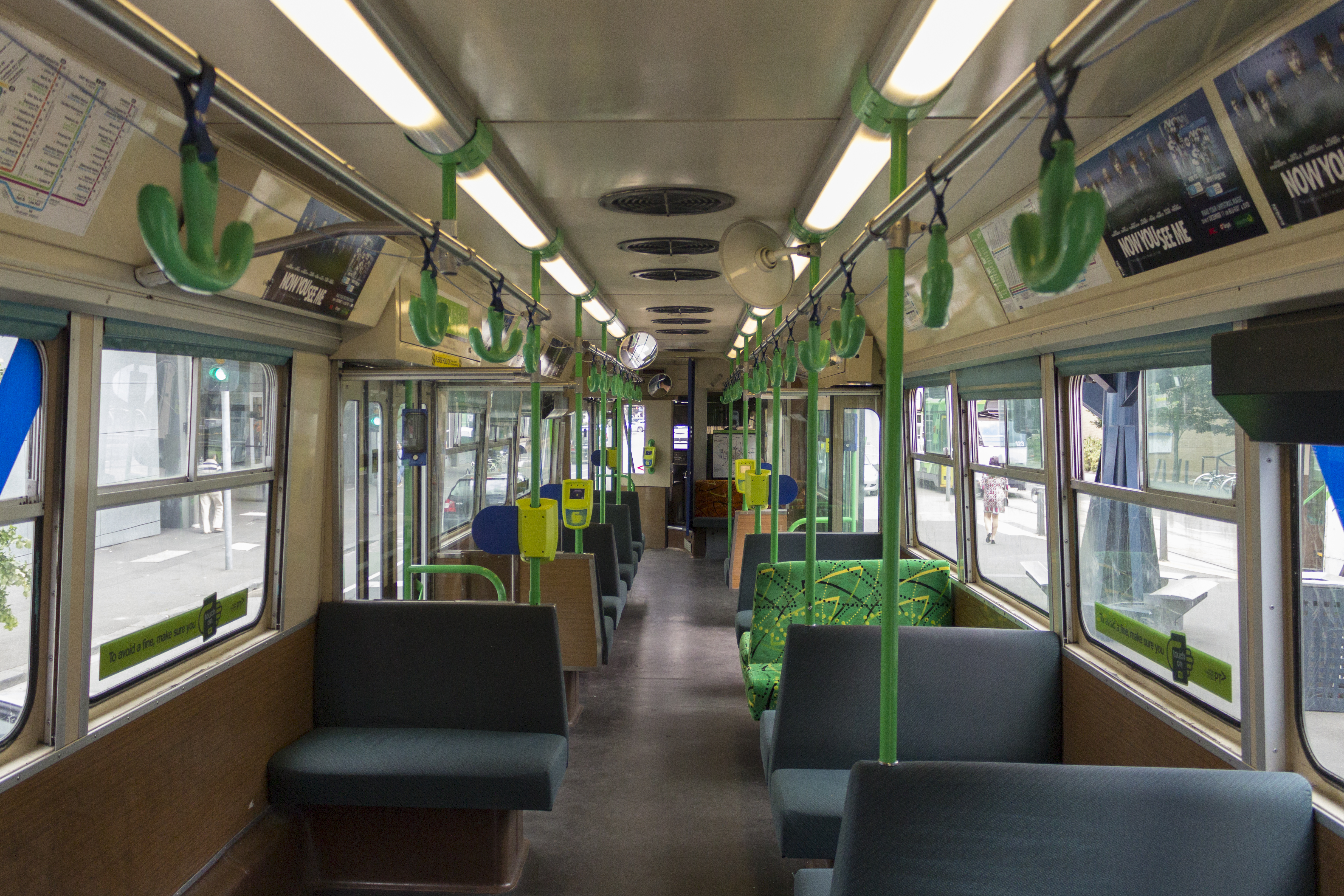 Z1-class Melbourne tram interior, 2013.